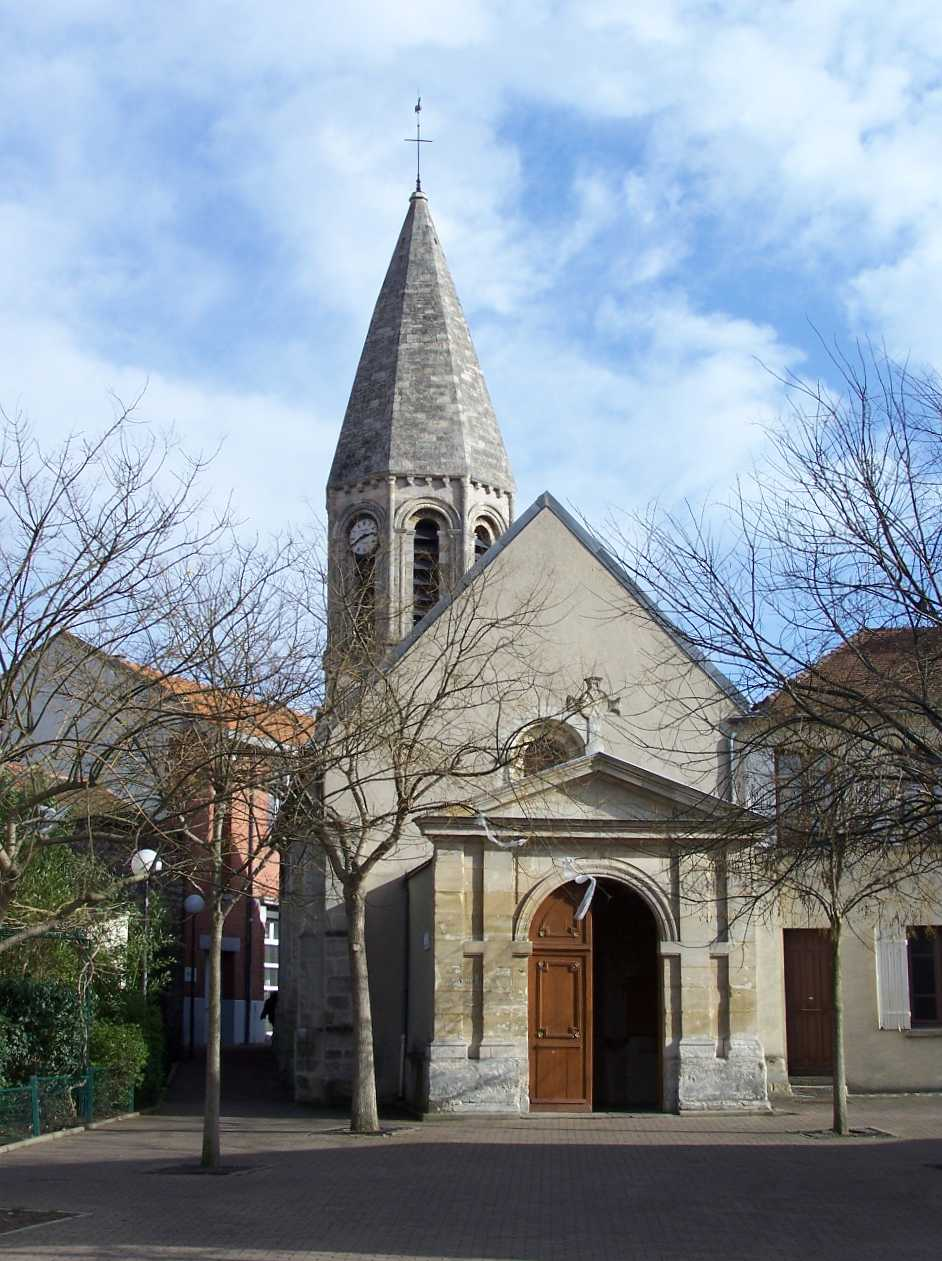 Church of Achères (Yvelines, France)